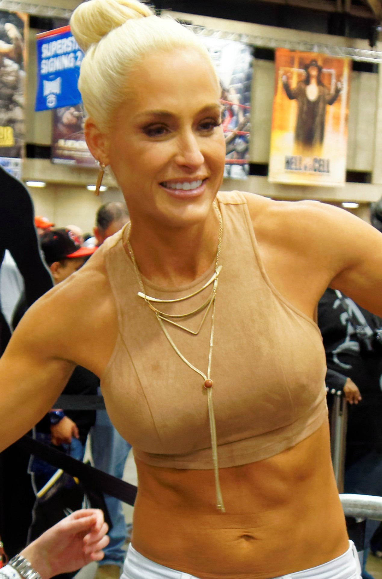 Michelle McCool during the WrestleMania 32 Axxess in April 2, 2016.